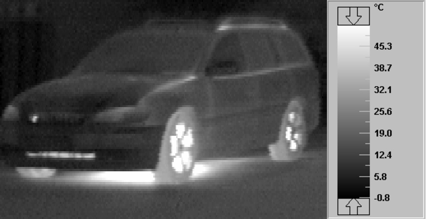 Infrared photography of an Opel Omega station wagon. Temperature values are not exact, since emissivity equal unity was assumed for all surfaces.